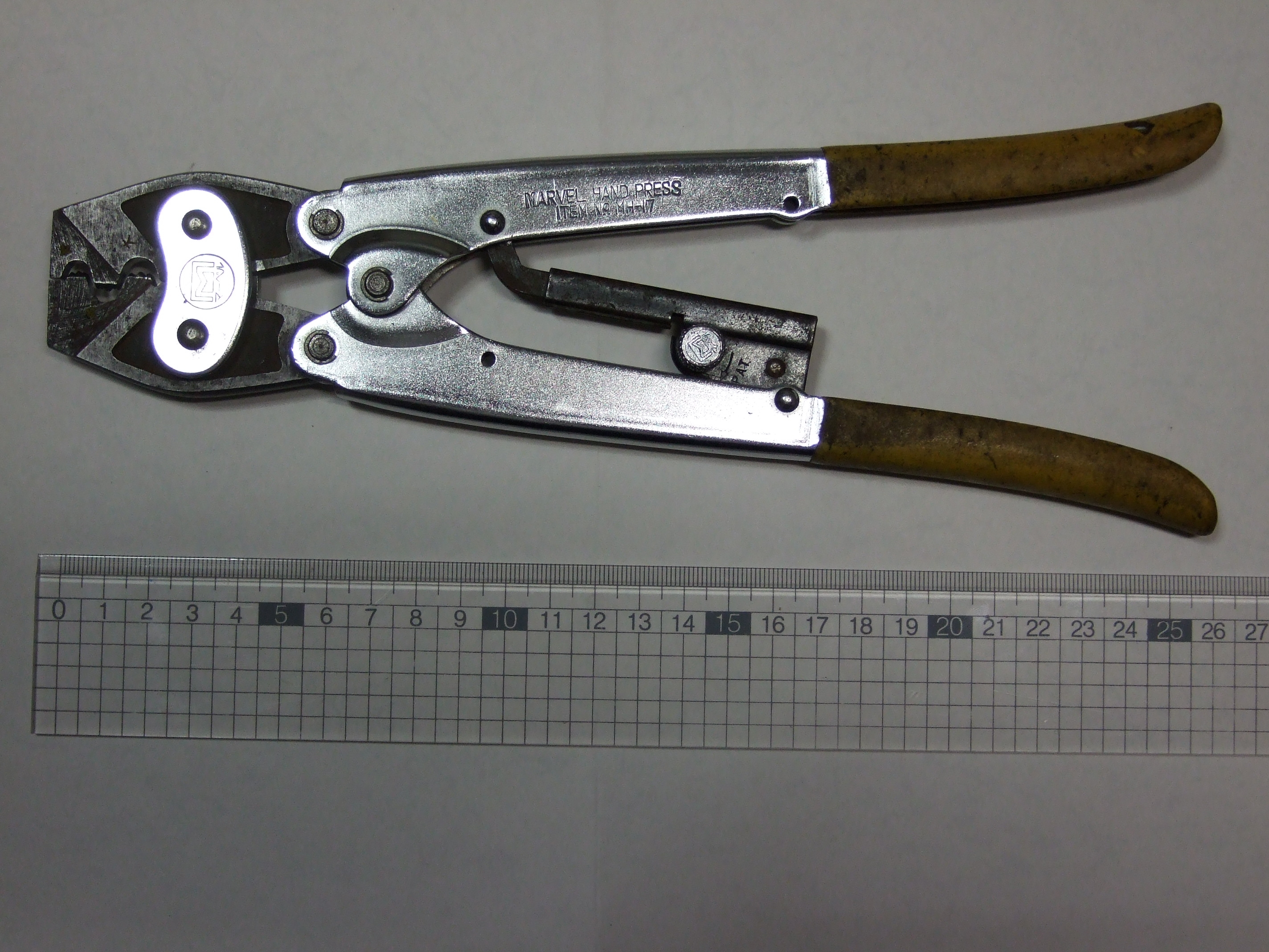 Hand crimp tool (Marvel Hand Press MH-17. Made by Marvel Corporation. Osaka, Japan)